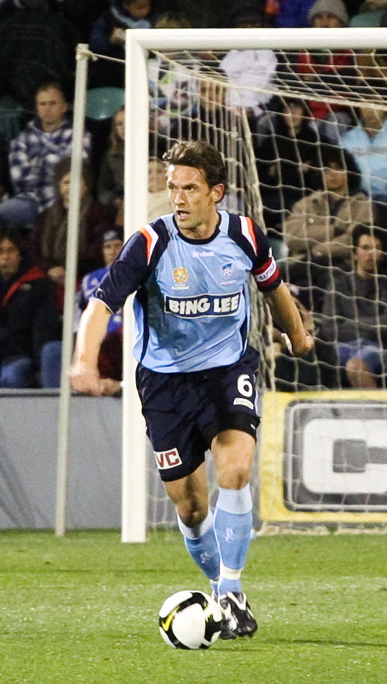 Tony Popovic in the 2008 Pre-Season Cup game against the Wellington Phoenix at the WIN Stadium in Wollongong, New South Wales.